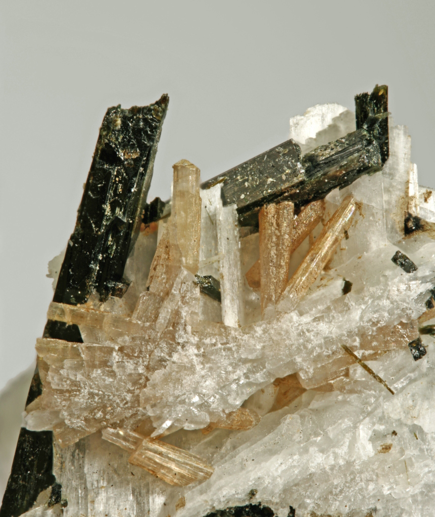 Petersenite-(Ce) Locality: Poudrette quarry (Demix quarry; Uni-Mix quarry; Desourdy quarry; Carrière Mont Saint-Hilaire), Mont Saint-Hilaire, La Vallée-du-Richelieu RCM, Montérégie, Québec, Canada The petersenite-(Ce) xls are ~ 5 mm. Via Jean-Pierre Beckerich. MOB coll. This is from the Poudrette pegmatite. The black aegirine prisms are all broken. The petersenite-(Ce) apears very fresh and unaltered (but some of it has a thin orangey coating.) It was associated with adamsite-(Y). It has very strong REE absorbtion lines but has not been analyzed. So I can't completely rule out other REE bearing burbankite family species (such as calcioburbankite).